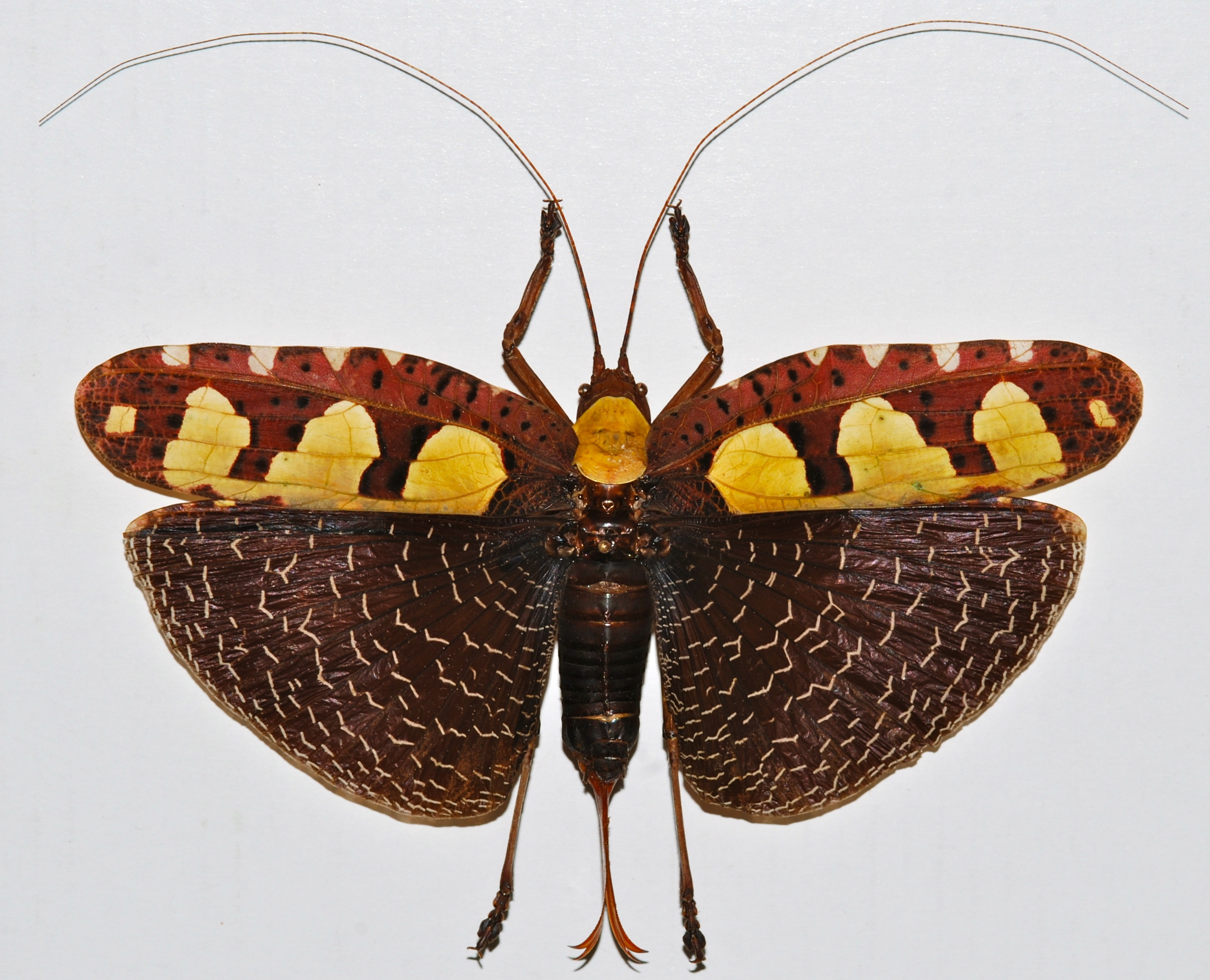 South-west, LAOS